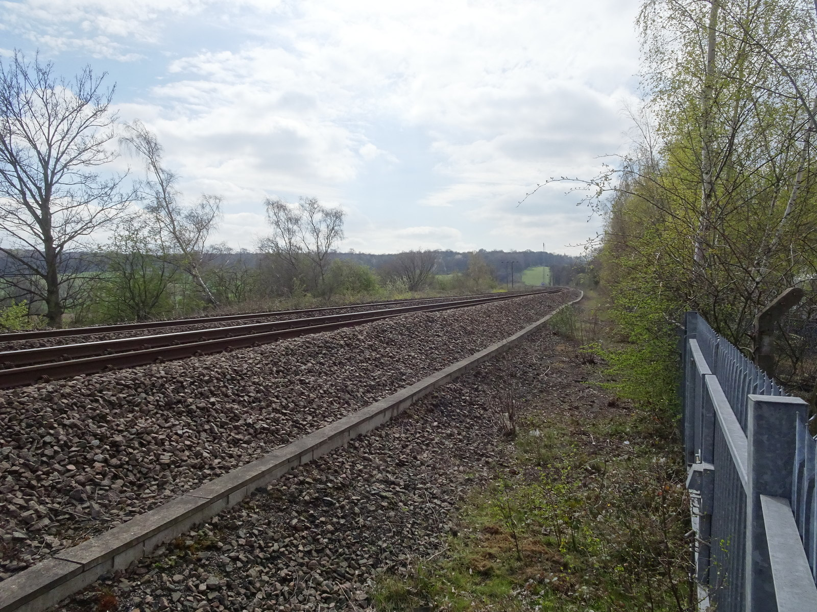 Wentworth & Hoyland Common railway station (site), YorkshireOpened in 1893 by the Midland Railway on the line from Sheffield to Barnsley, this station closed in 1959. View south west towards Chapeltown and Sheffield. No trace apparently remains at platform level, nor of the former station building at road level. However, the adjacent Station Master's house on Sheffield Road was still extant in 2019.